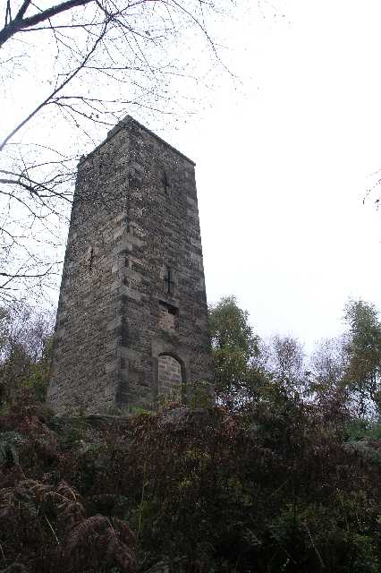 The Reform Tower, Stanton Moor, Derbyshire. The white dots are not on the tower. They are raindrops on the branches of the tree.